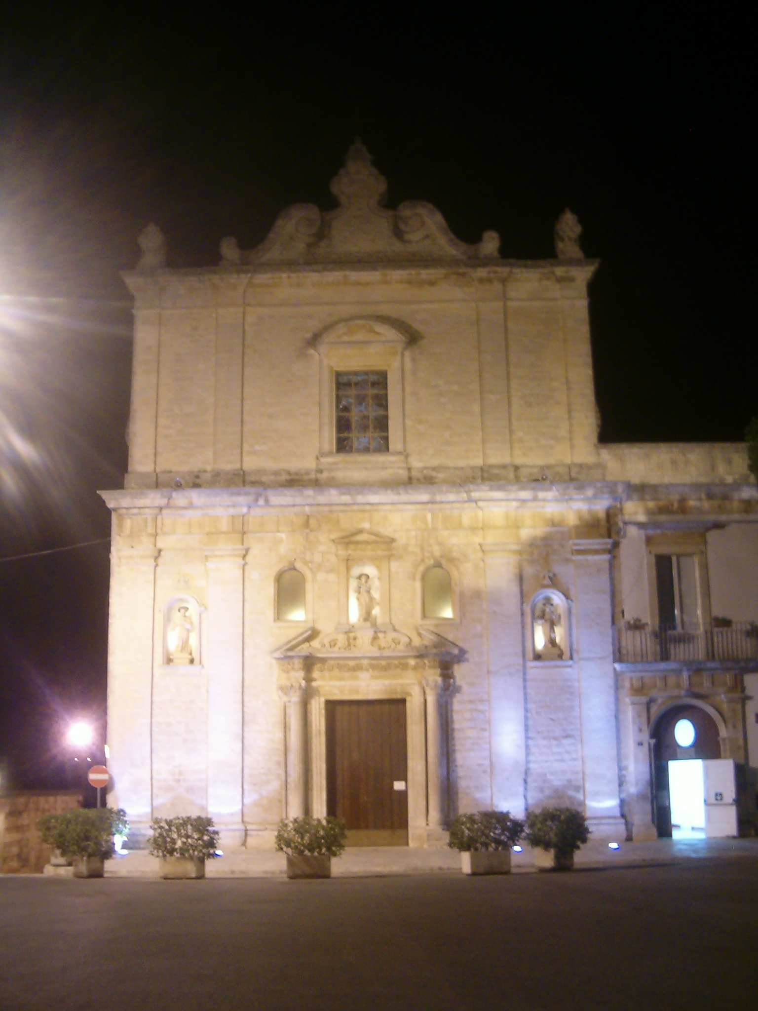 S. Francesco d'Assisi church, in Martina Franca (TA, Italy)